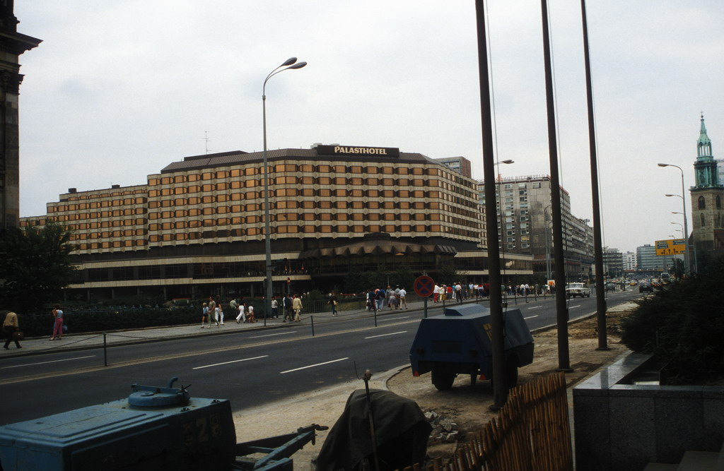 40、Palast Hotel, Karl-Liebknecht-Straße, near Unter den Linden; Deutsche Demokratische Republik (DDR)